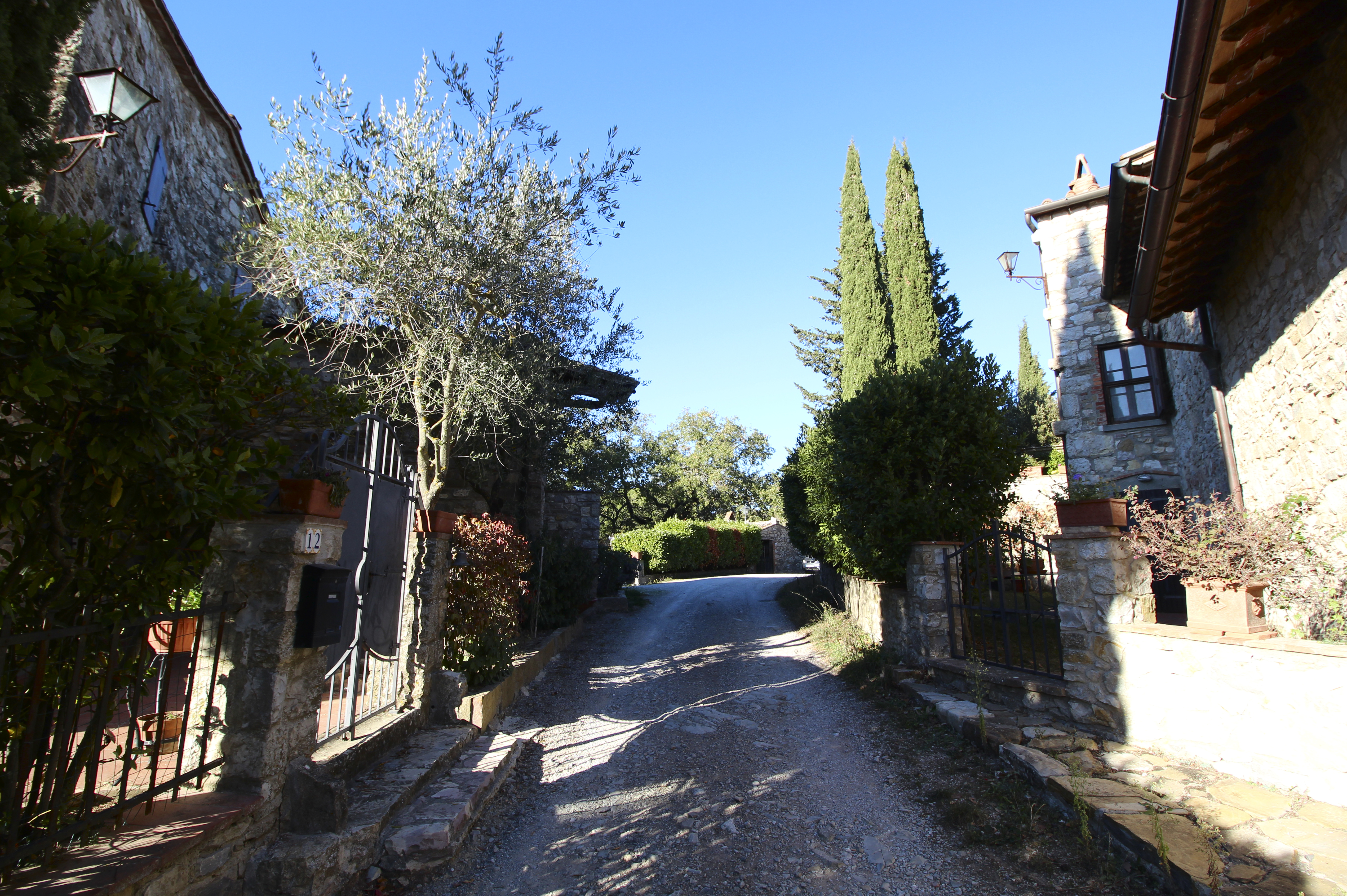 Colle Petroso (also Collepetroso), hamlet of Radda in Chianti, Province of Siena, Tuscany, Italy